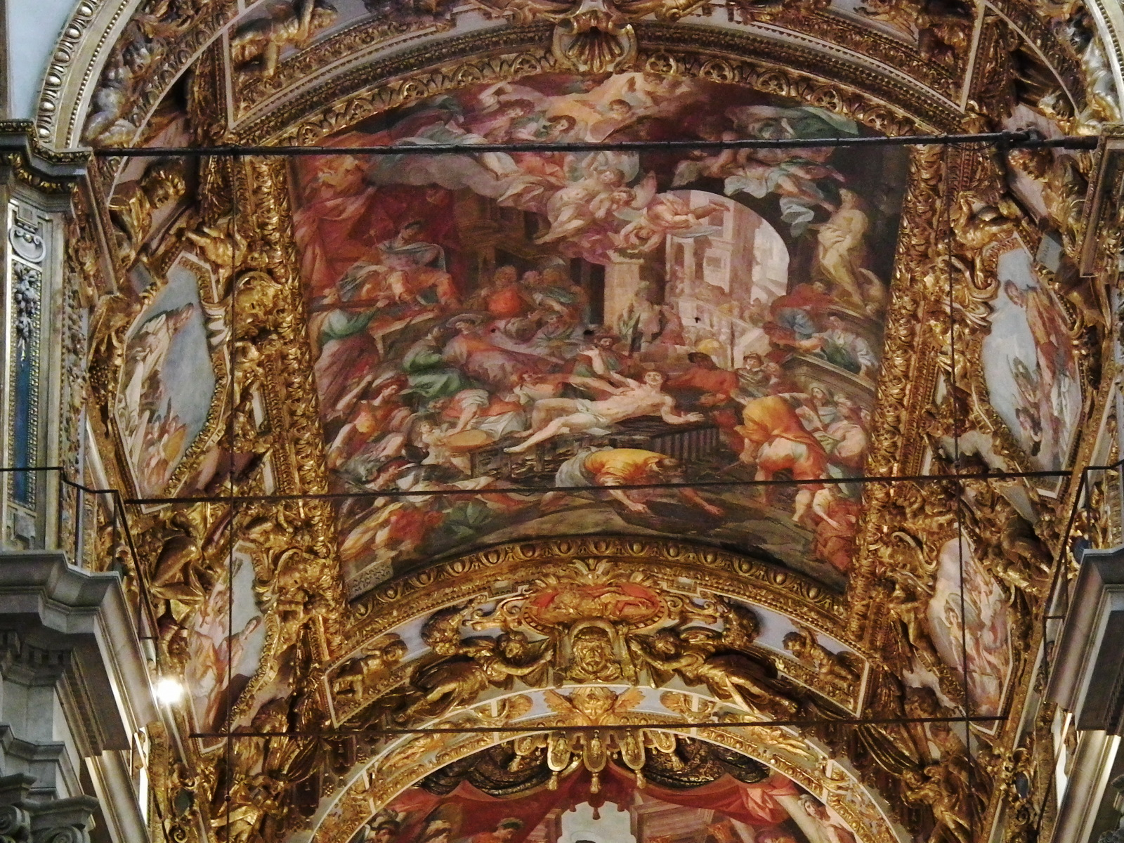 The interior of the Cathedral Genoa Cathedral Native nameCattedrale di San LorenzoLocationGenoa, Liguria, ItalyCoordinates44° 24′ 26.92″ N, 8° 55′ 53.83″ E Established1118: consecrated 17th century: finished construction